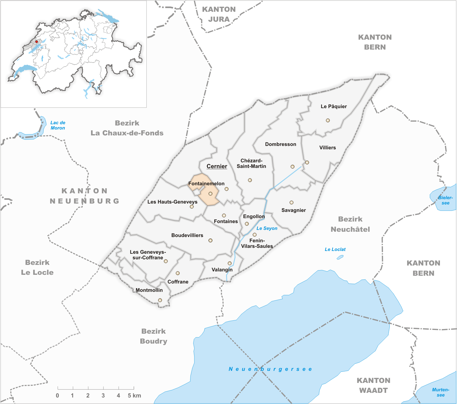 Municipality Fontainemelon